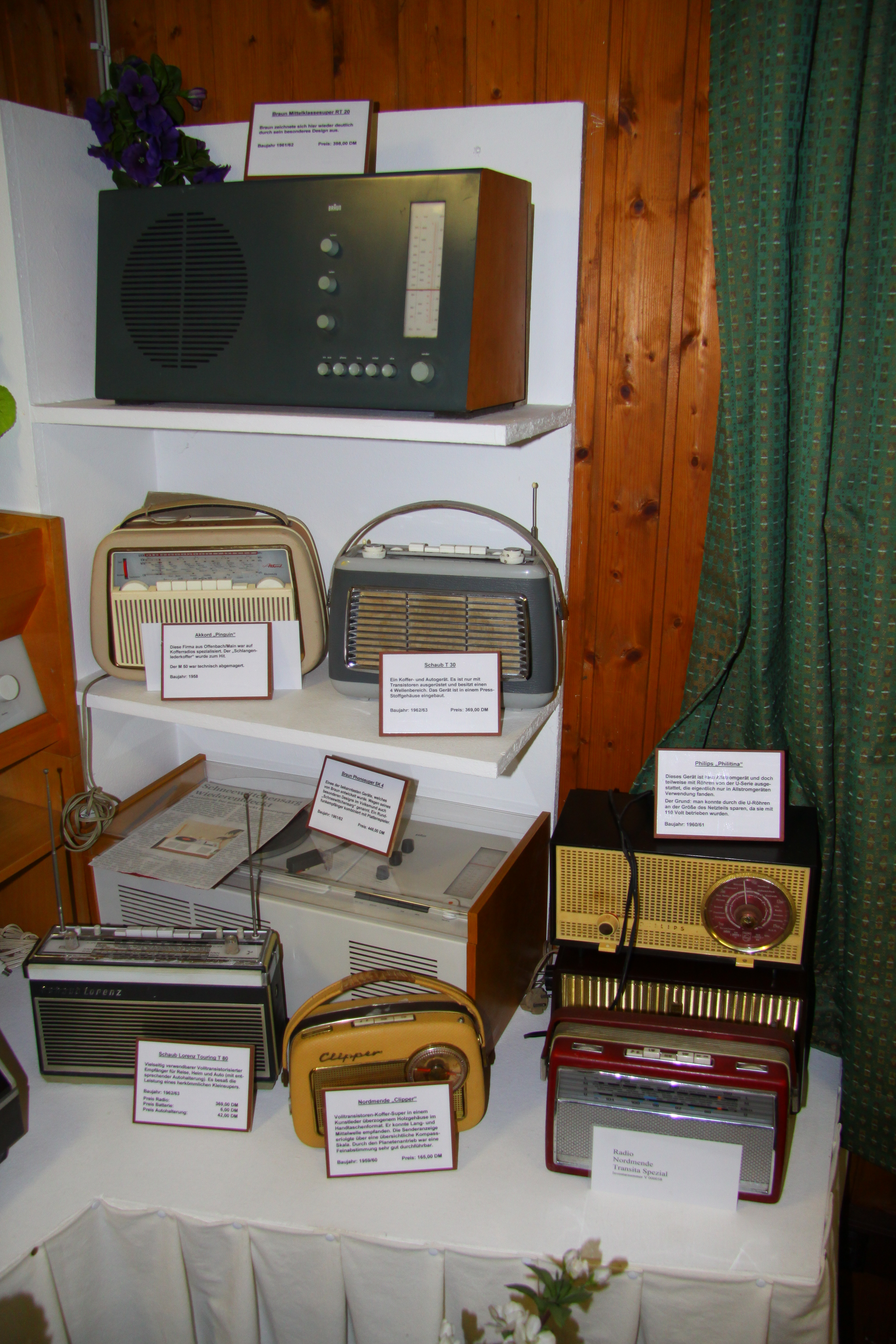 Technikmuseum Stade, permanent collection, March 2012